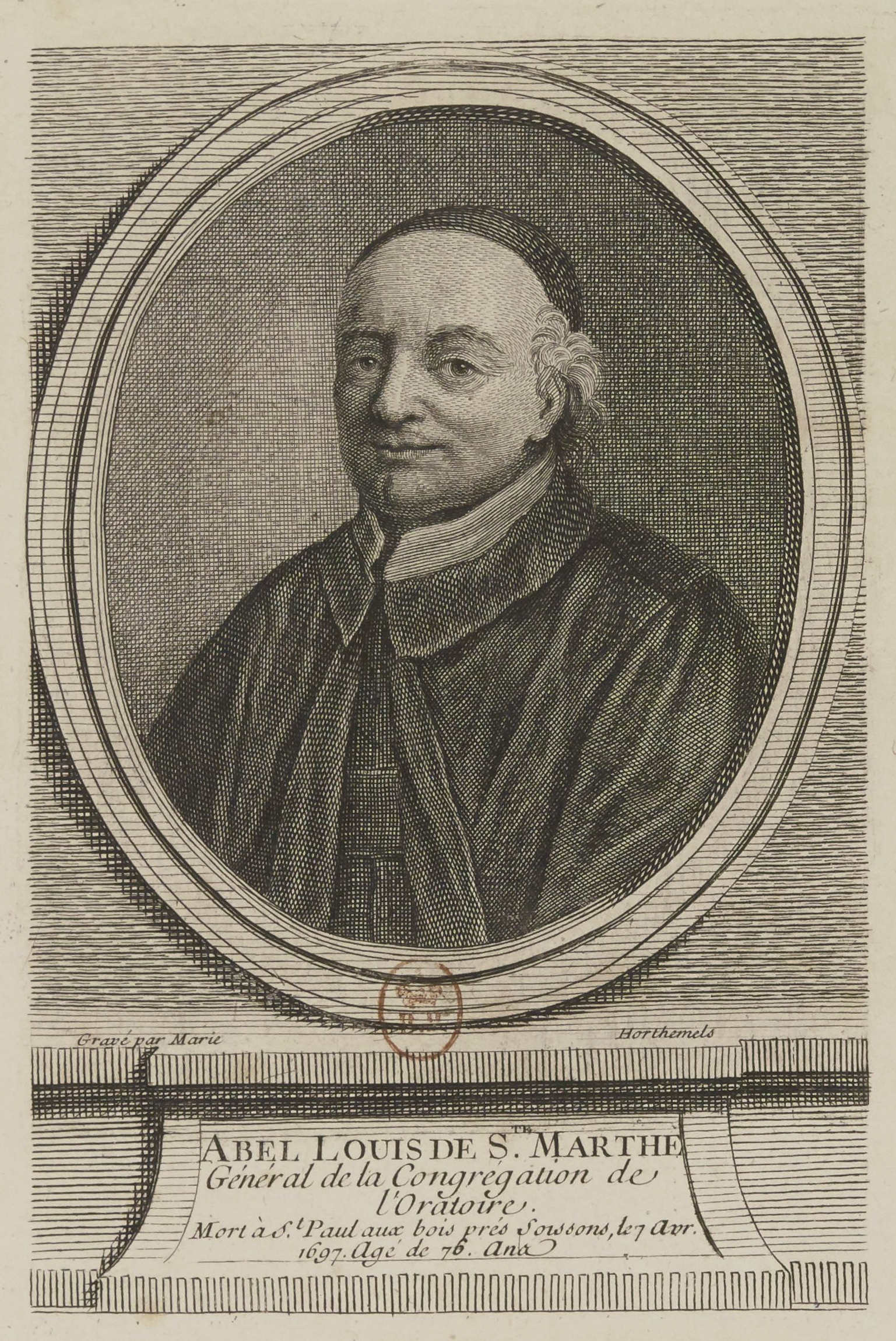 Abel-Louis de Sainte-Marthe (1621 - 1697), General of Oratorians, french jansenist theologian